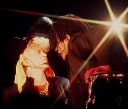 Thompson Twins at Bristol Colston Hall.